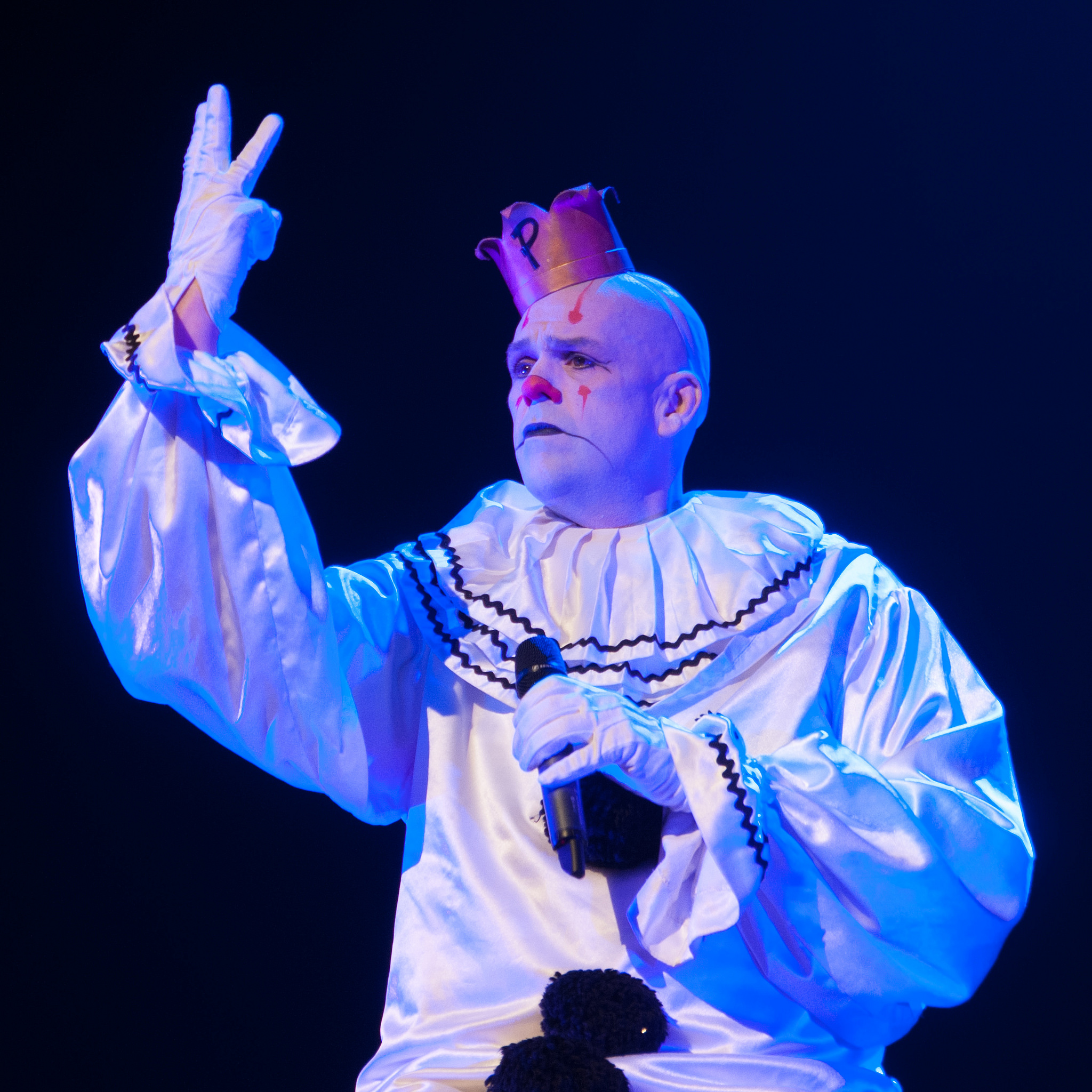 Puddles (Mike Geier) - Odegand, Gent, 2014